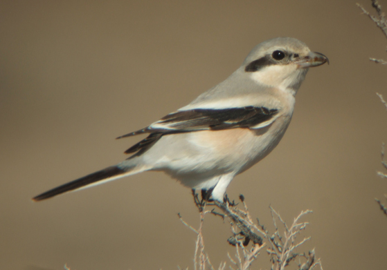 Lanius pallidirostris, South Kazakhstan.